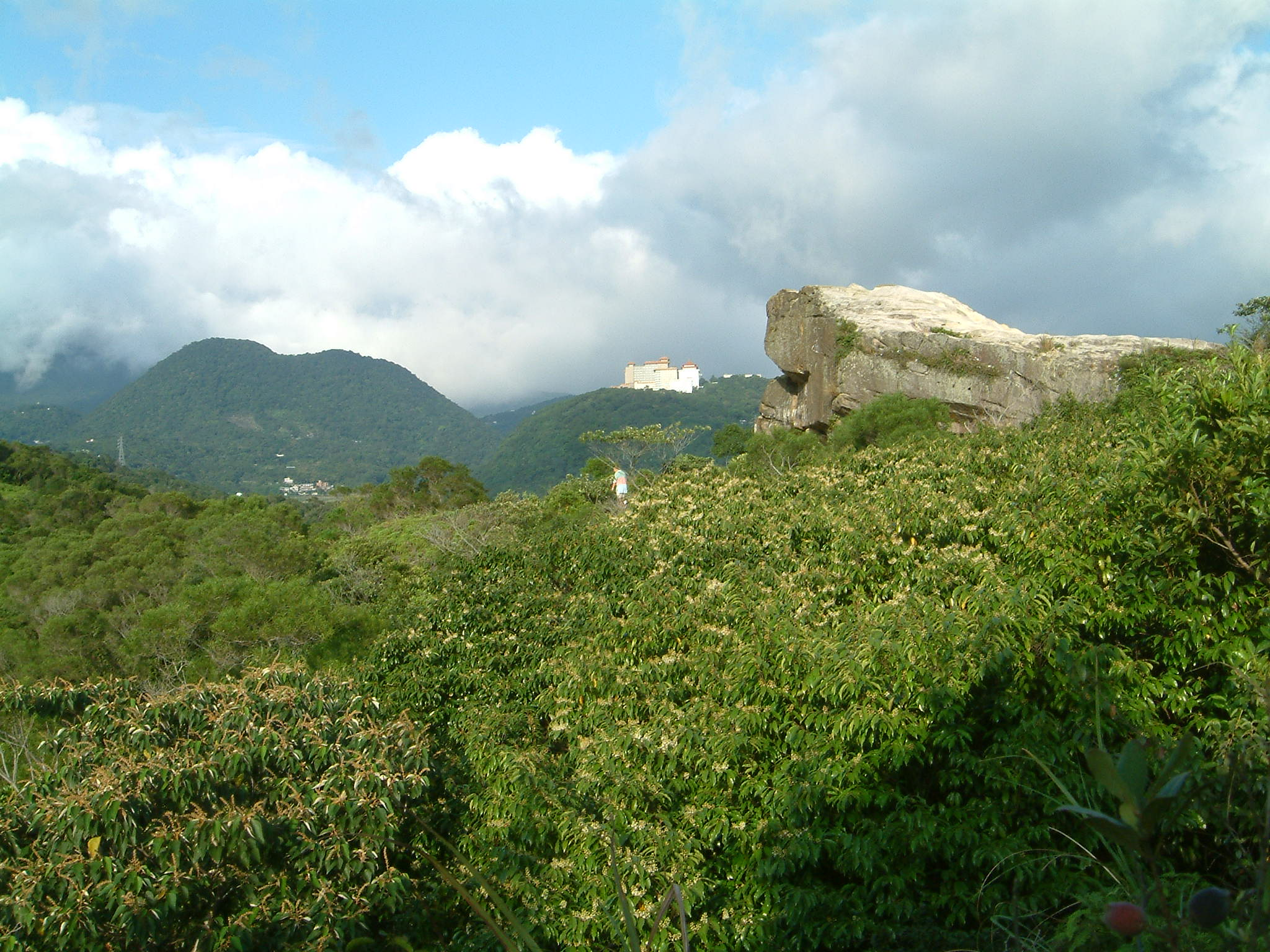 Junjianyan, Beitou District, Taipei City